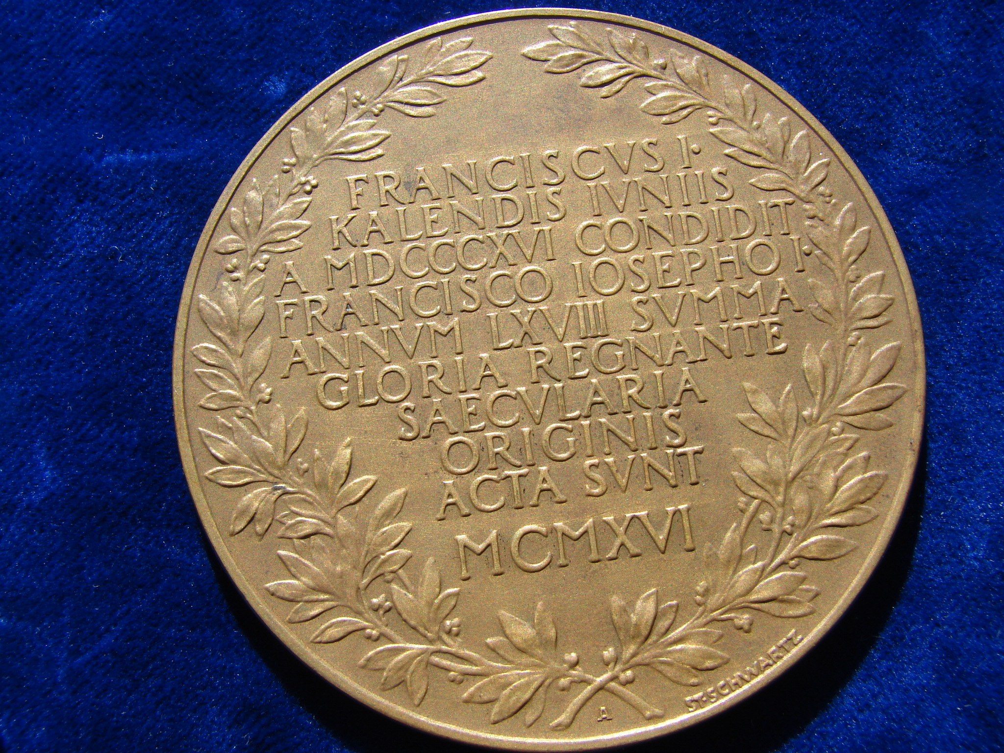 Franz I, Emperor of Austria, 1804 - 1835 and Johann Philipp Karl Joseph Graf von Stadion (-Warthausen), 1763 Warthausen, Württemberg, Germany - 1824 Baden bei Wien, Austria. Bronze, d.= 65 mm. Francis I at l. presents the Charter of the Nationalbank to finance minister Count von Stadion at r. in exergue: " 1. JUNI 1816", curved above: "PRIVILEGIERTE OESTERREICHISCHE NATIONALBANK"/ 10 lines text between 2 laurel branches: "FRANCISCVS I. KALENDIS JVNIIS A MDCCCXVI CONDIDIT FRANCISCO IOSEPHO I. ANNVM LXVIII SVMMA GLORIA REGNANTE SAECVLARIA ORIGINIS ACTA SVNT MCMXVI". Wurzbach 1035. Medallist: St. (Stefan) Schwartz, Sculptor, 1851 Neutra (Slowakia) - 1924 Raabs, Lower Austria. Condition: UNCIRCULATED